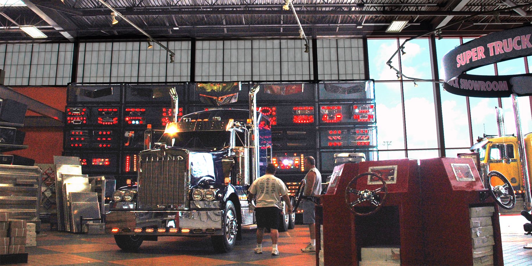 showroom of Iowa 80 truckstop.